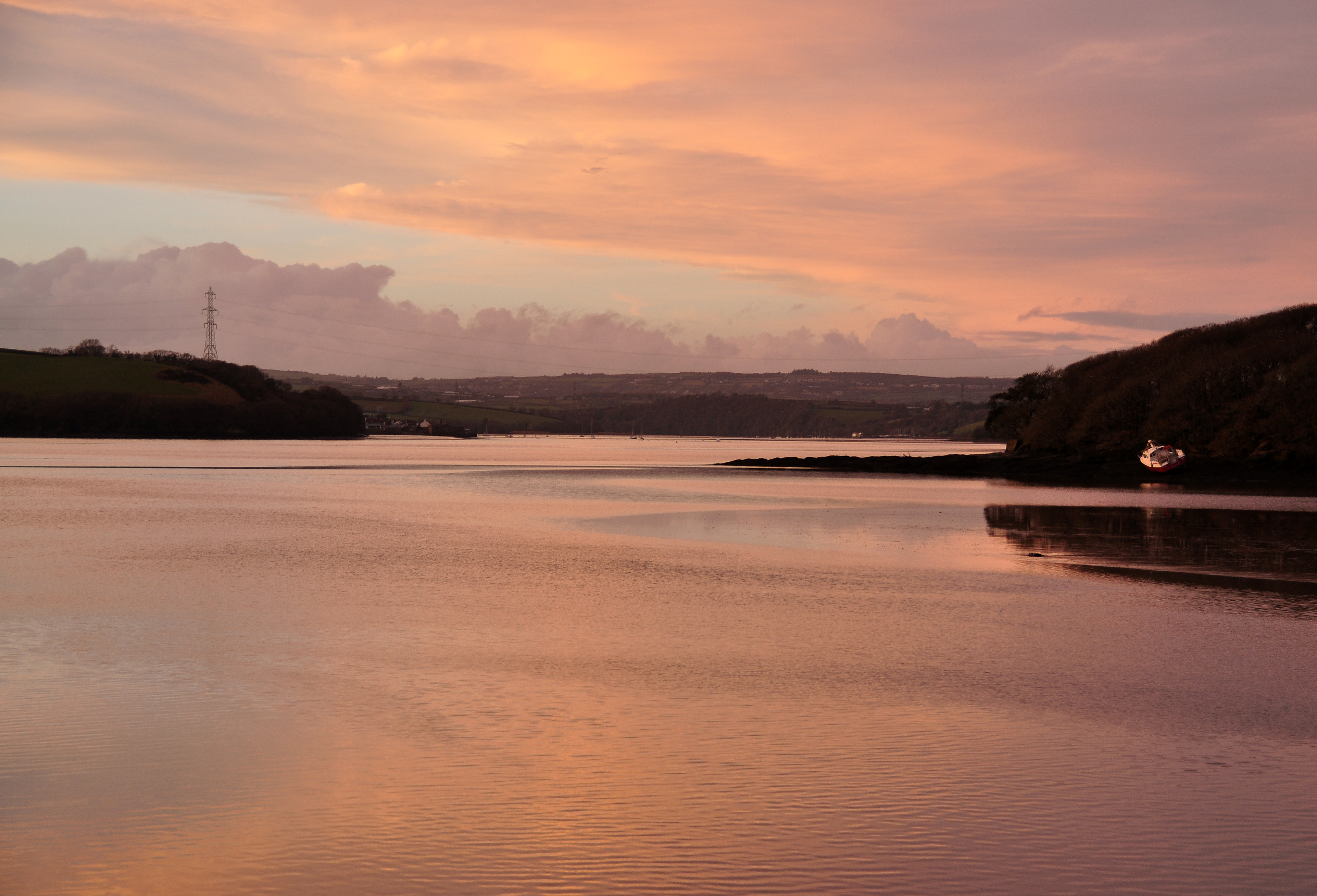 View north along the Tamar Estuary at sunset, from Warren Point in Ernesettle, Plymouth.